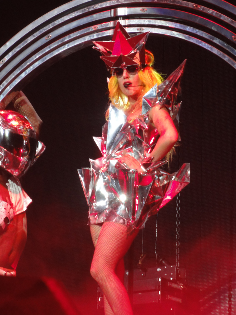 Lady Gaga performing "Bad Romance" on The Monster Ball Tour.